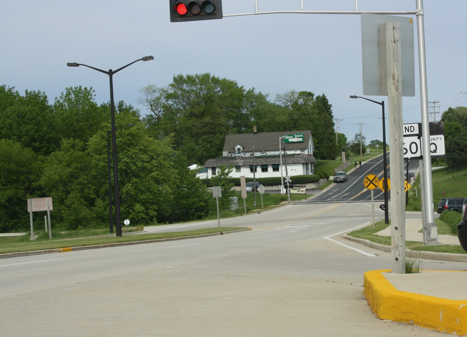 The eastern terminus of Wisconsin Highway 60 in the foreground. In the background in the ghost town named Ulao, Wisconsin.